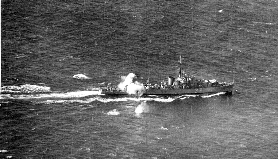 Frigate ARA Heroína (P-32) dropping a depth charge pattern